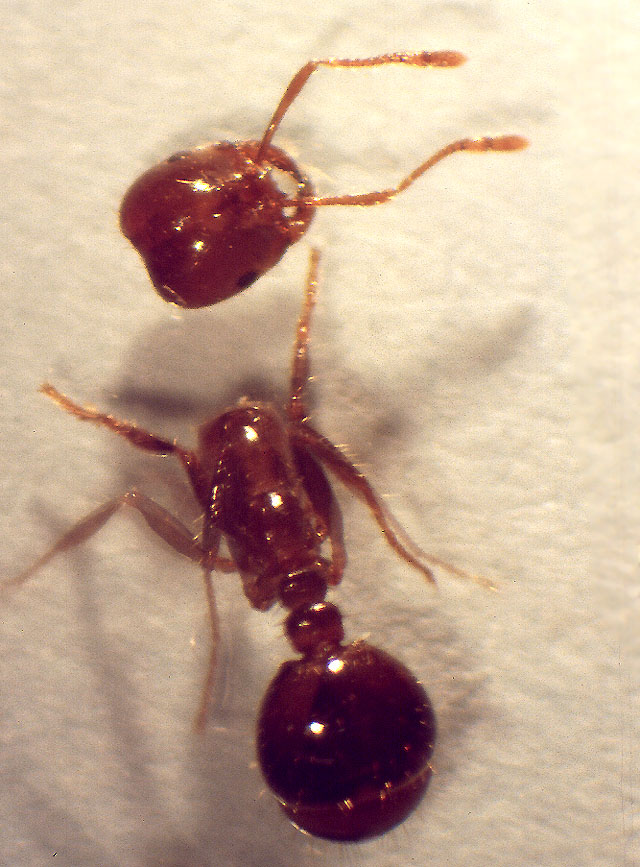 Fire ant (Hymenoptera: Formicidae) decapitated by a parassitoid fly, Pseudacteon sp. (Diptera: Phoridae)